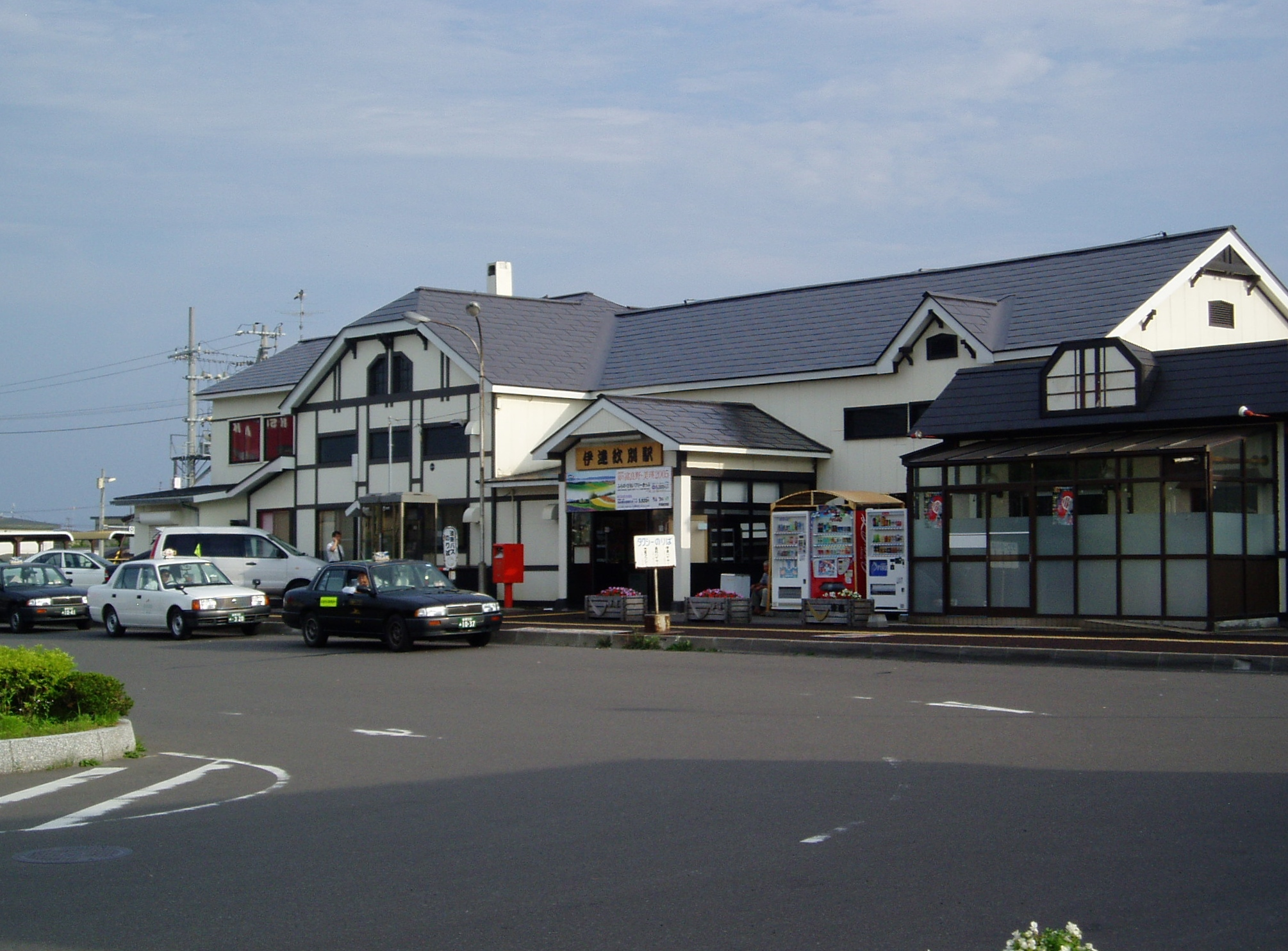 Datemombetsu Station in Muroran Main Line, Japan